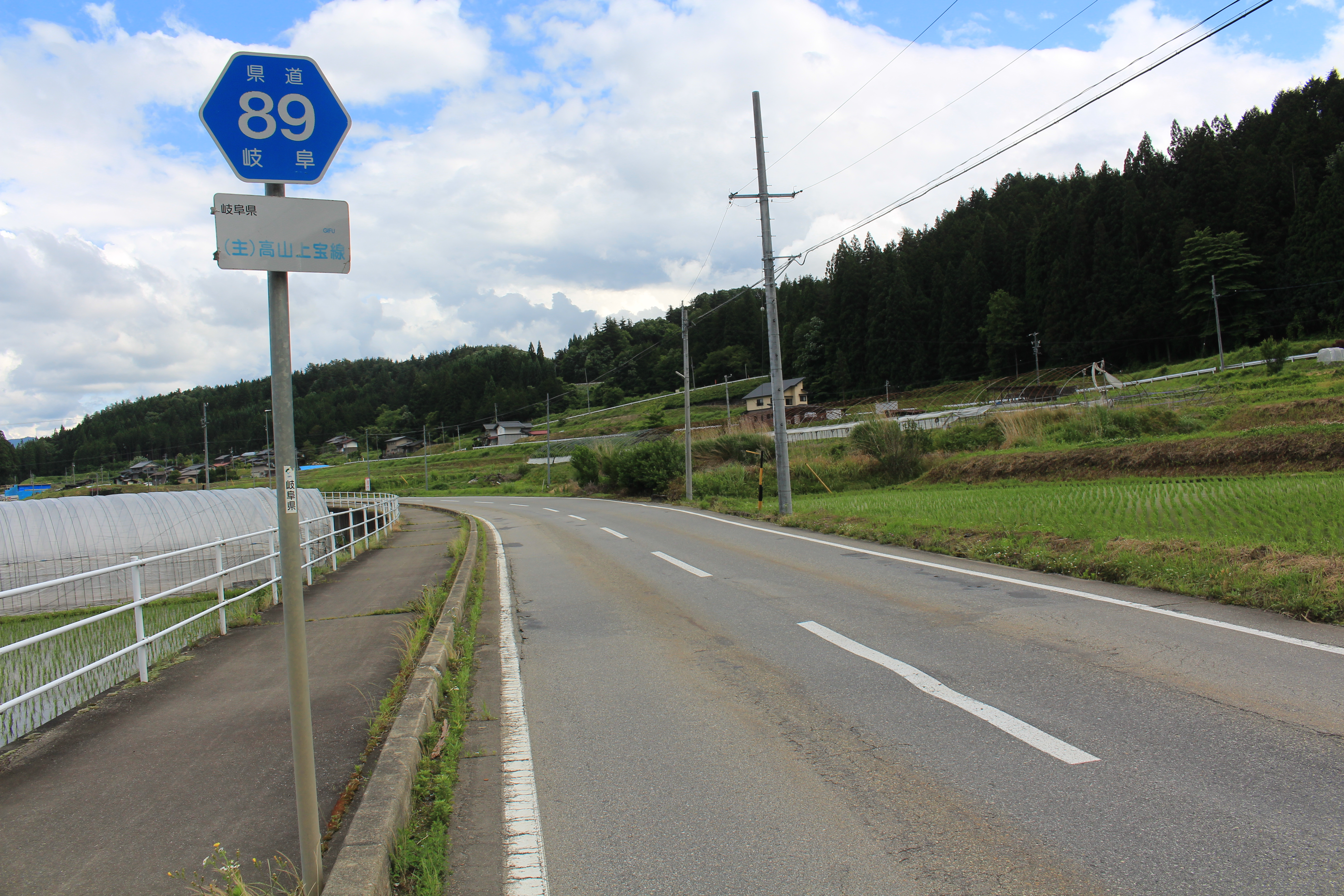 Gifu Prefectural Road Route 89 in Takayama, Gifu prefecture, Japan.